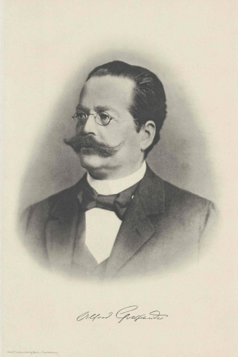 Alfred Goldscheider